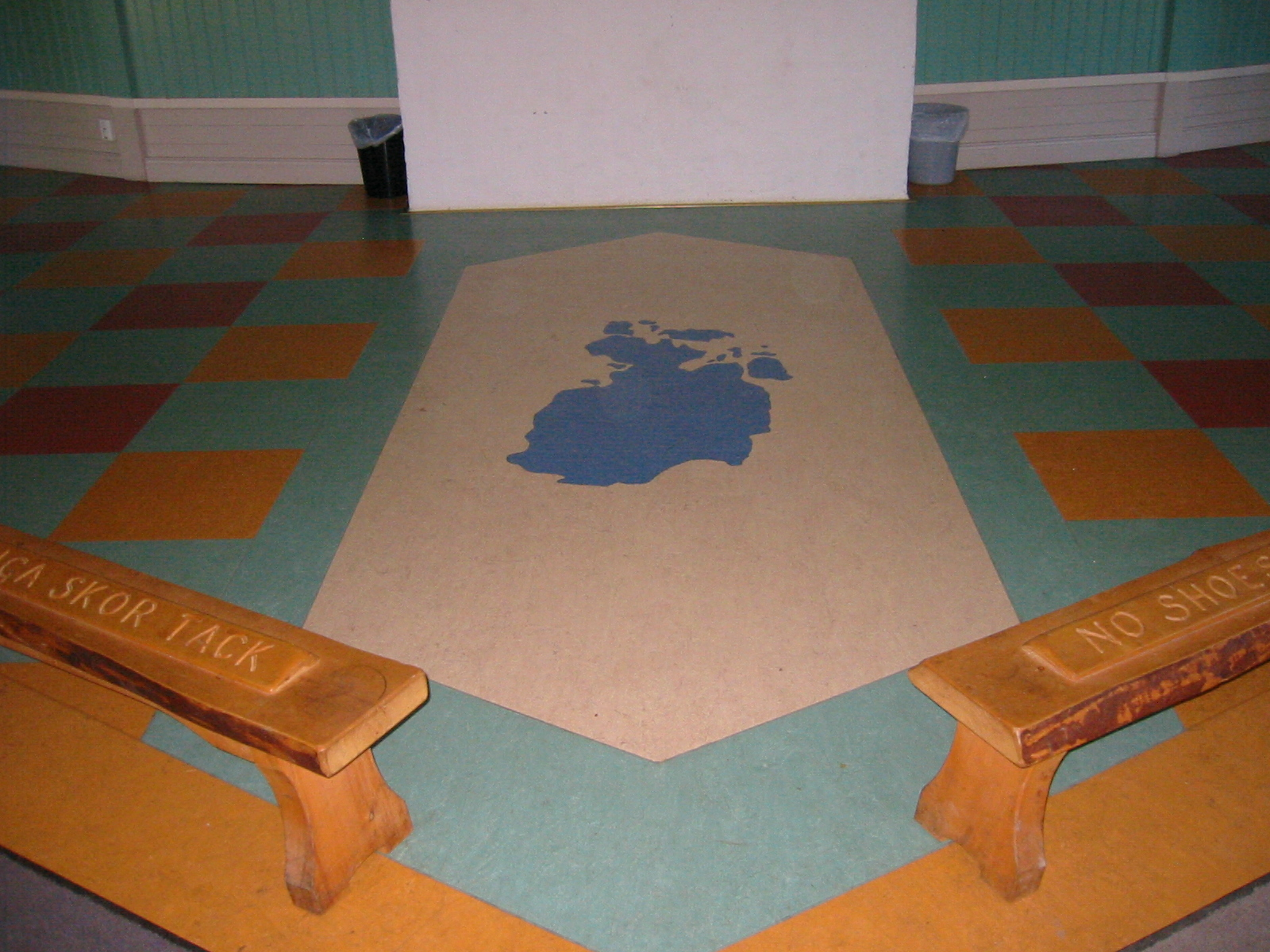 The floor in the foyer of the house called cirkus on Vässarö